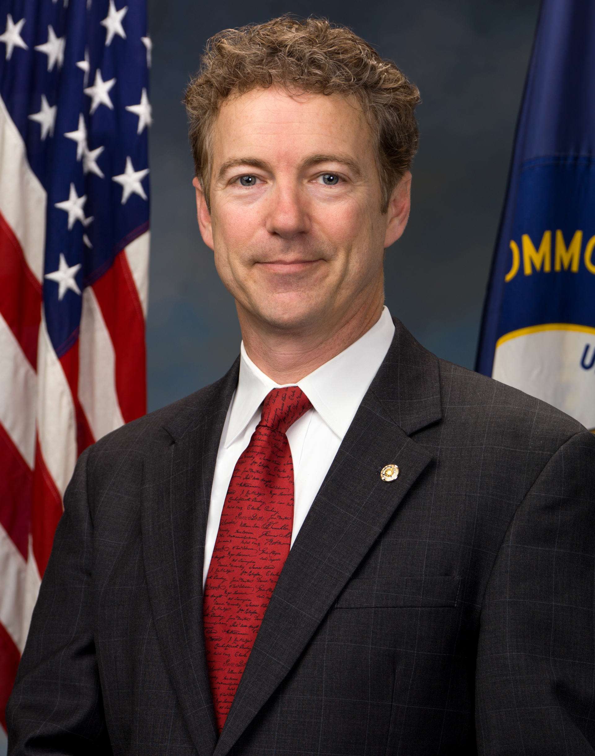 Official portrait of United States Senator Rand Paul (R-KY).